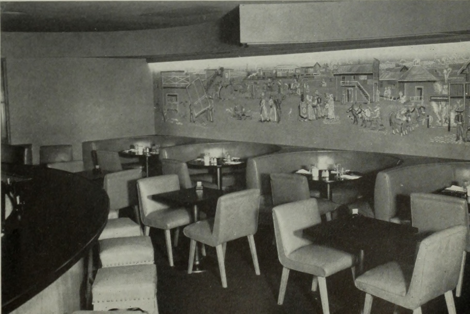 Title: Architect and engineer Year: 1905 (1900s) Authors: Subjects: Architecture Architecture Architecture Building Publisher: San Francisco : Architect and Engineer, Inc Text Appearing Before Image: r. Wall andceiling colors are a light turquoise throughout withthe exception of the center piers dividing the twodining rooms which are a sand-dune color. The decorative scheme evolves around thetheme of the recent Metro-Goldwyn-Mayer produc-tion of The Harvey Girls which portrayed his-toric incidents in the lives of the famous waitressesof the western eighteen nineties. The dining roommural symbolizes a typical western desert townalong the reaches of the railway, while the 24foot long mural in the Cocktail Room characterizesthe goings on in the main set on the MGM lot.Paintings done on the set during the filmtakingby Doris Lee are hung strategically. Chinawarerepeats the desert motif by use of a stylized cactuson each piece. Planting by way of different species of desertcactii, Yucca and Joshua Trees, integrally placedboth inside and out, is spotlighted at night to givea play of patterns on wall and ceiling surfaces. Hoffman-LuckhausStudio, Photos MURALS byEdgar Miller NOVEMBER, 1947 Text Appearing After Image: CDLOR CDIVSULTAIVT . . .